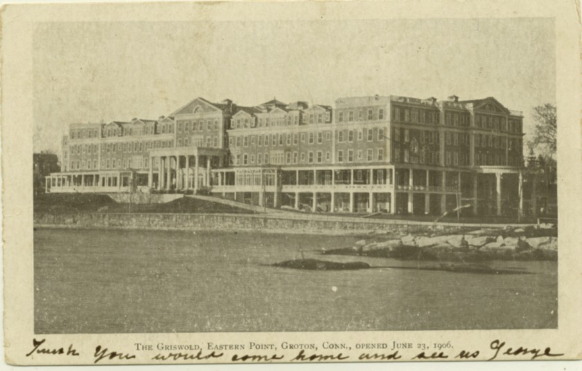 Postcard: The Griswold, Groton, Connecticut